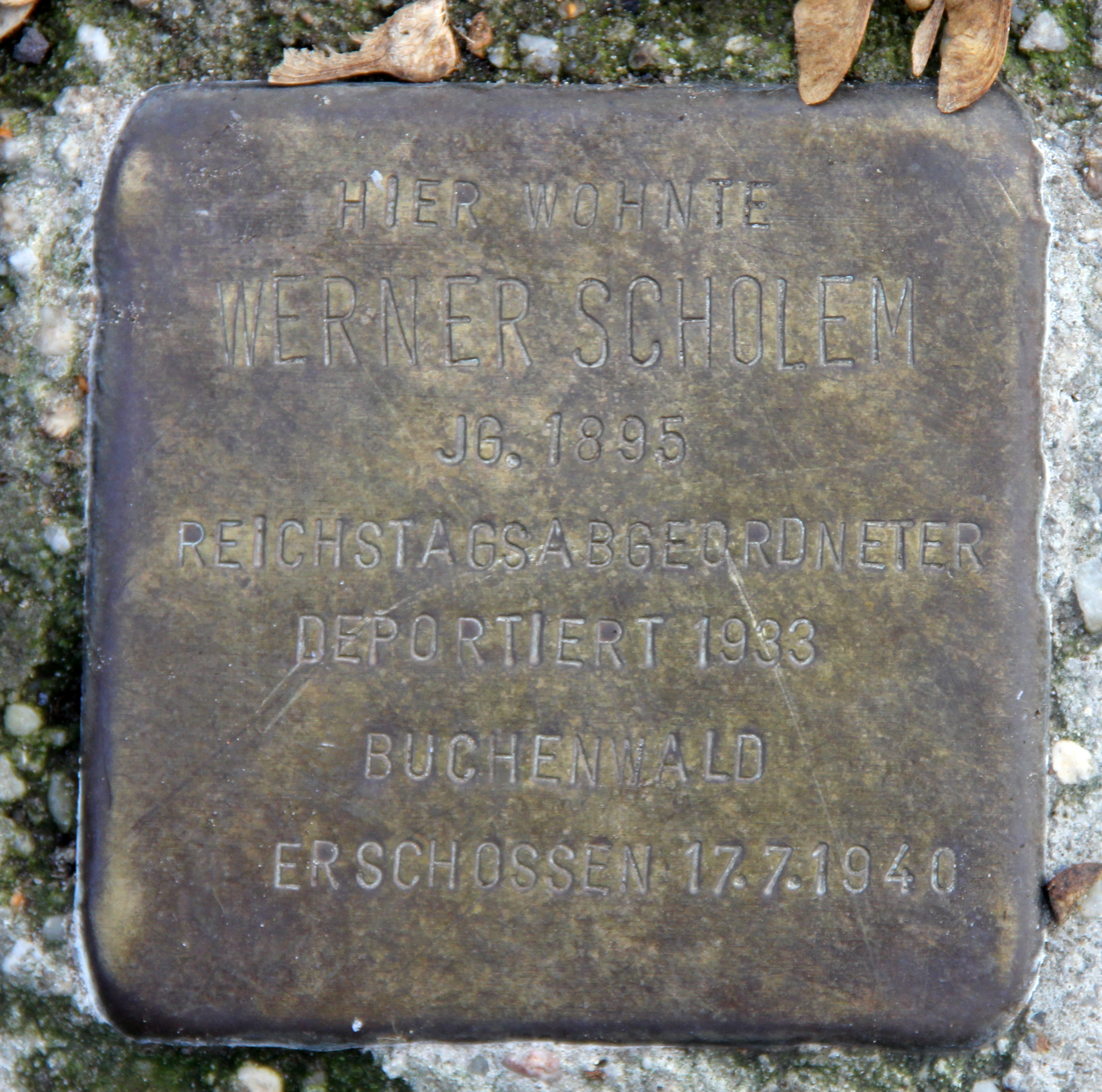 "Stolperstein" (stumbling block), Werner Scholem, Klopstockstraße 18, Berlin-Hansaviertel, Germany